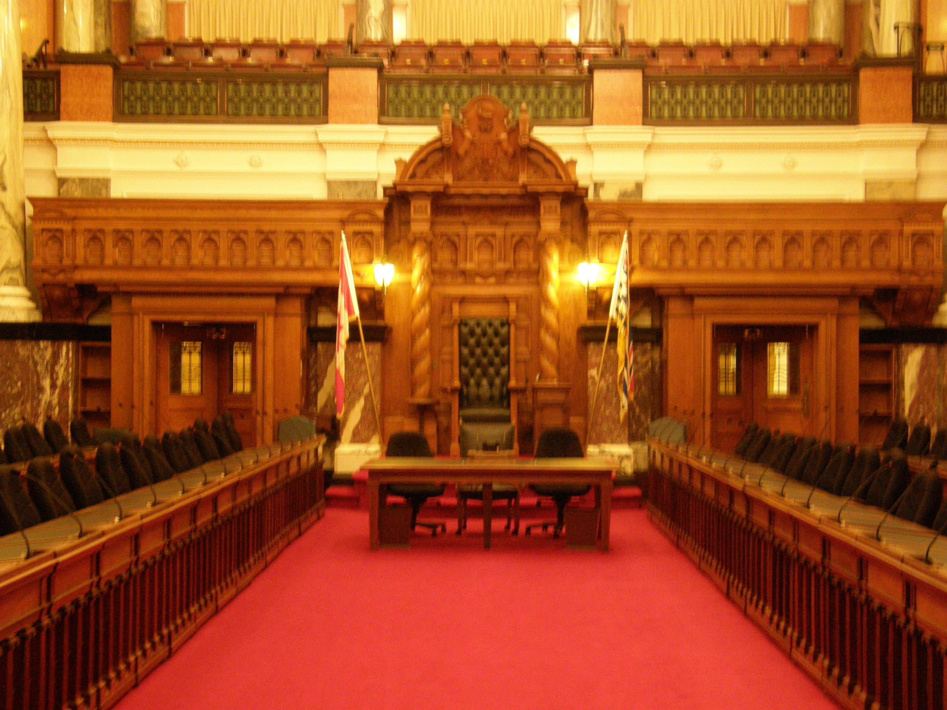 The chamber of the British Columbia provincial legislature in Victoria, B.C.